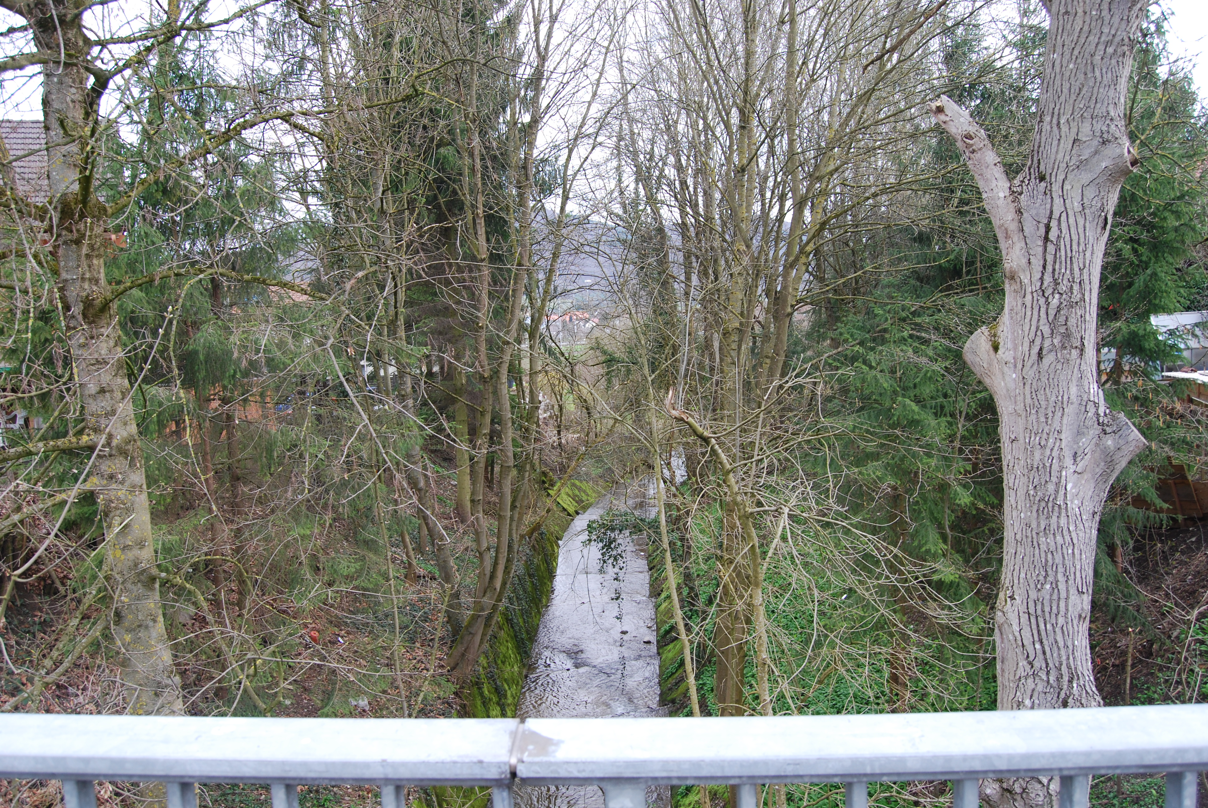 Chrüzlibach at Rekingen, canton of Aargau, SwitzerlandEsperanto: Rivereto Chrüzlibach en Rekingen, Kantono Argovio, Svislando